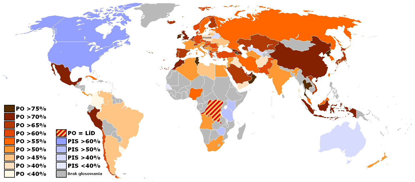 Polish parliamentary election, 2007 - voting abroad - results by countries.